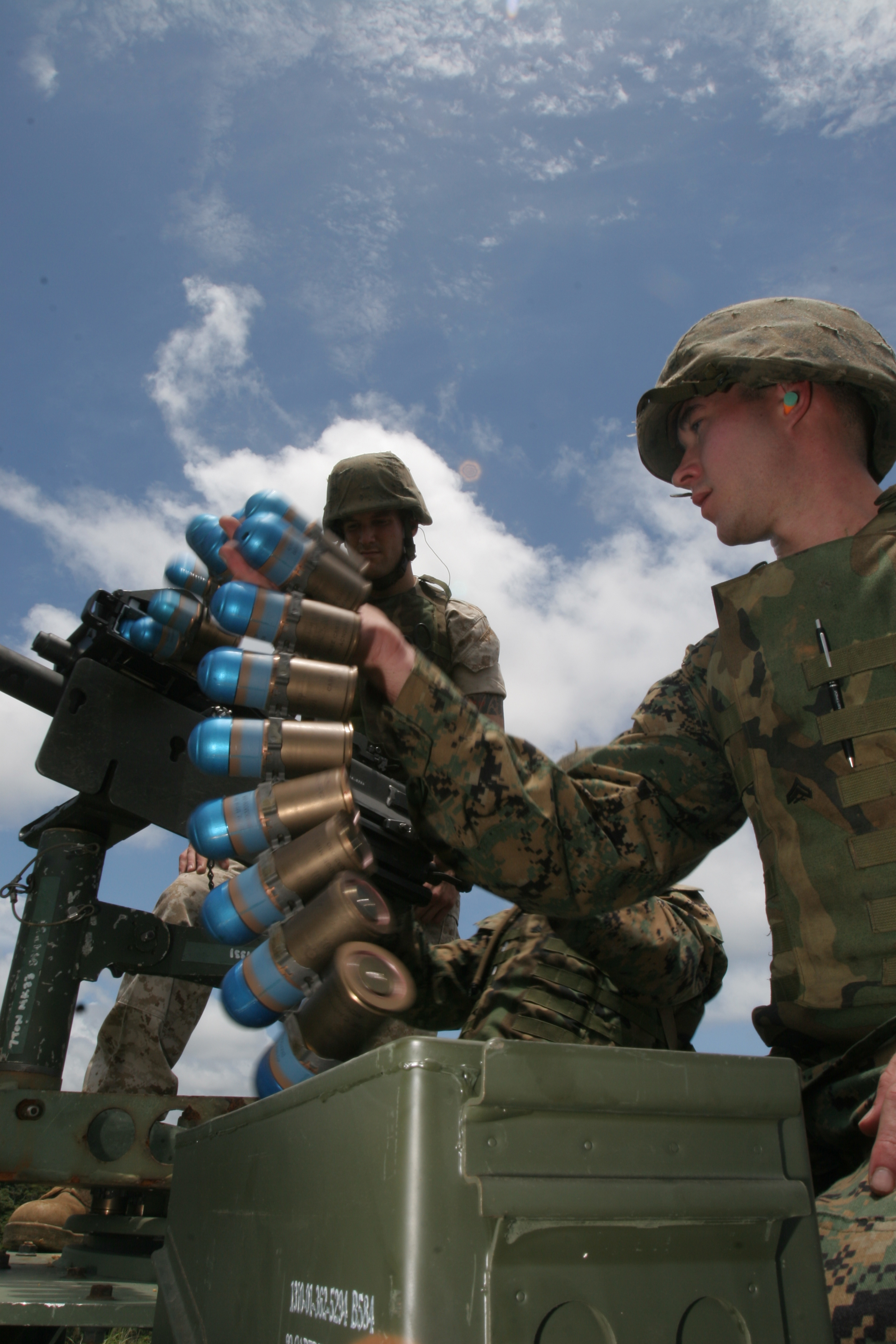 Cpl. Christopher Fletcher loads an MK-19 40 mm grenade launcher June 7 at Camp Schwab’s range 10. Seventy two Marines and sailors from various Okinawa-based units took part in pre-deployment training June 5-12 in preparation for upcoming deployments to support Operations Iraqi and Enduring Freedom. Fletcher is a motor vehicle operator with Headquarters Battery, 12th Marine Regiment, 3rd Marine Division.